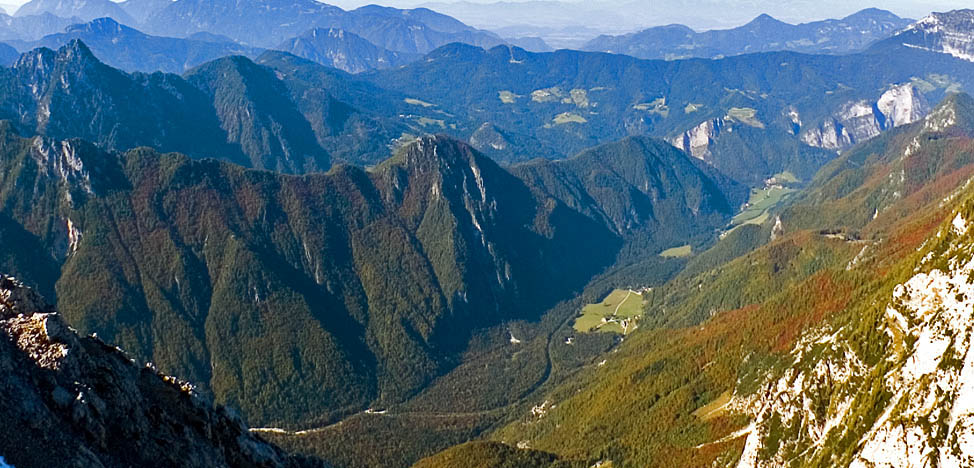 Panoramic view of the Logarska Valley from the top of mt. Ojstrica